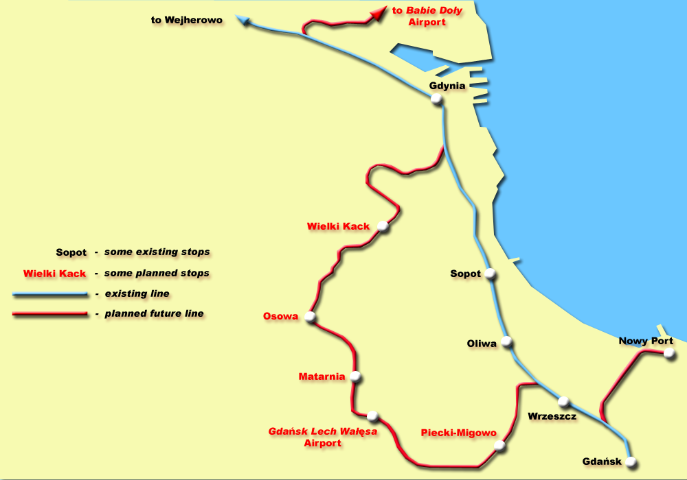 Scheme of SKM expanding by 2012